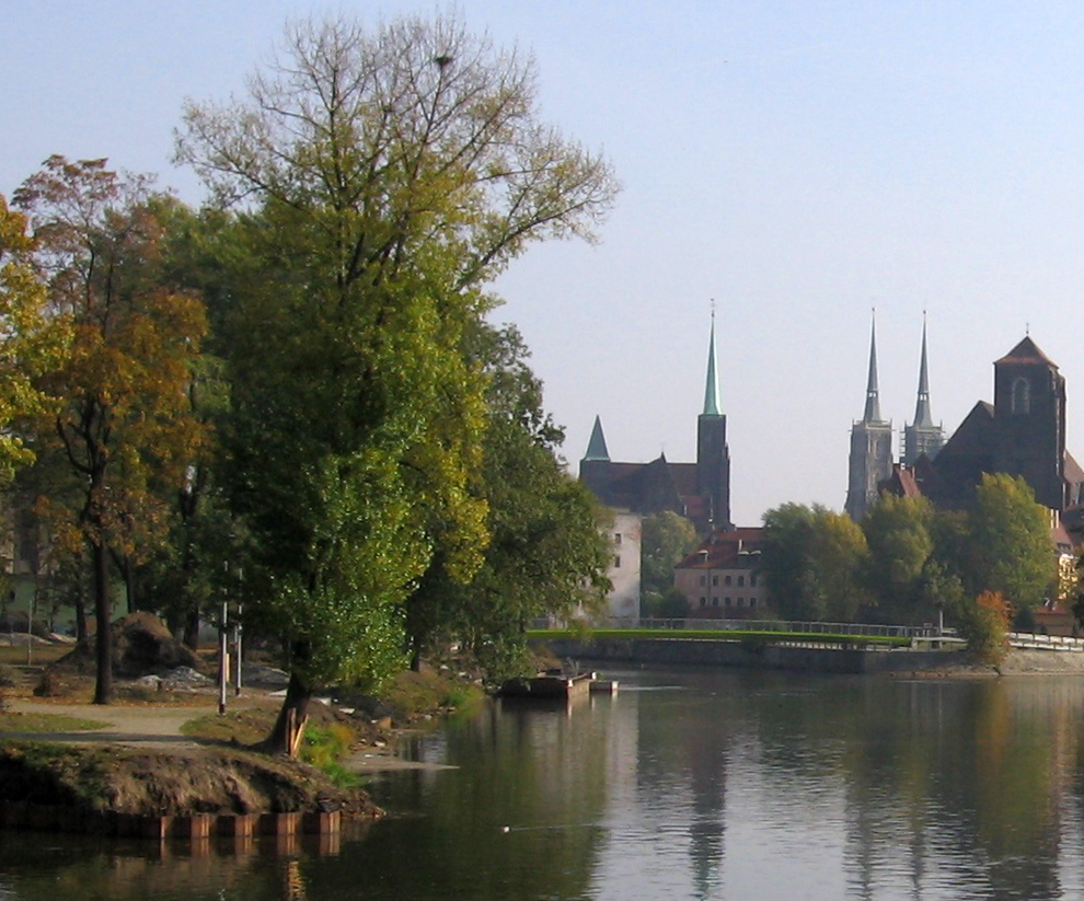 Wrocław, Poland: Wyspa Słodowa - Malt Island on Odra-River (left), background - steeples of Ostrów Tumski (Cathedral Island) churches.